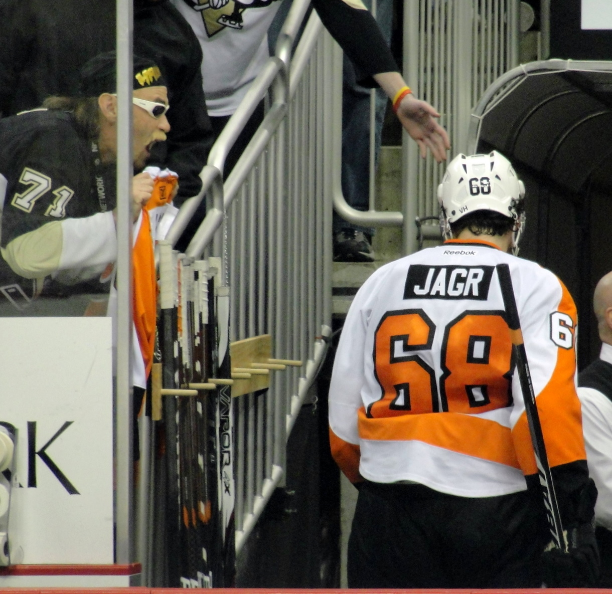 Jaromir Jagr of the Philadelphia Flyers being taunted by Penguins fan Cy "Malkamania" Clark following the Flyers 4-2 win over the Pittsburgh Penguins, December 29, 2011 at Consol Energy Center in Pittsburgh, PA. It was Jagr's first trip to Pittsburgh as a member of the Flyers. From PensAreYourDaddy.